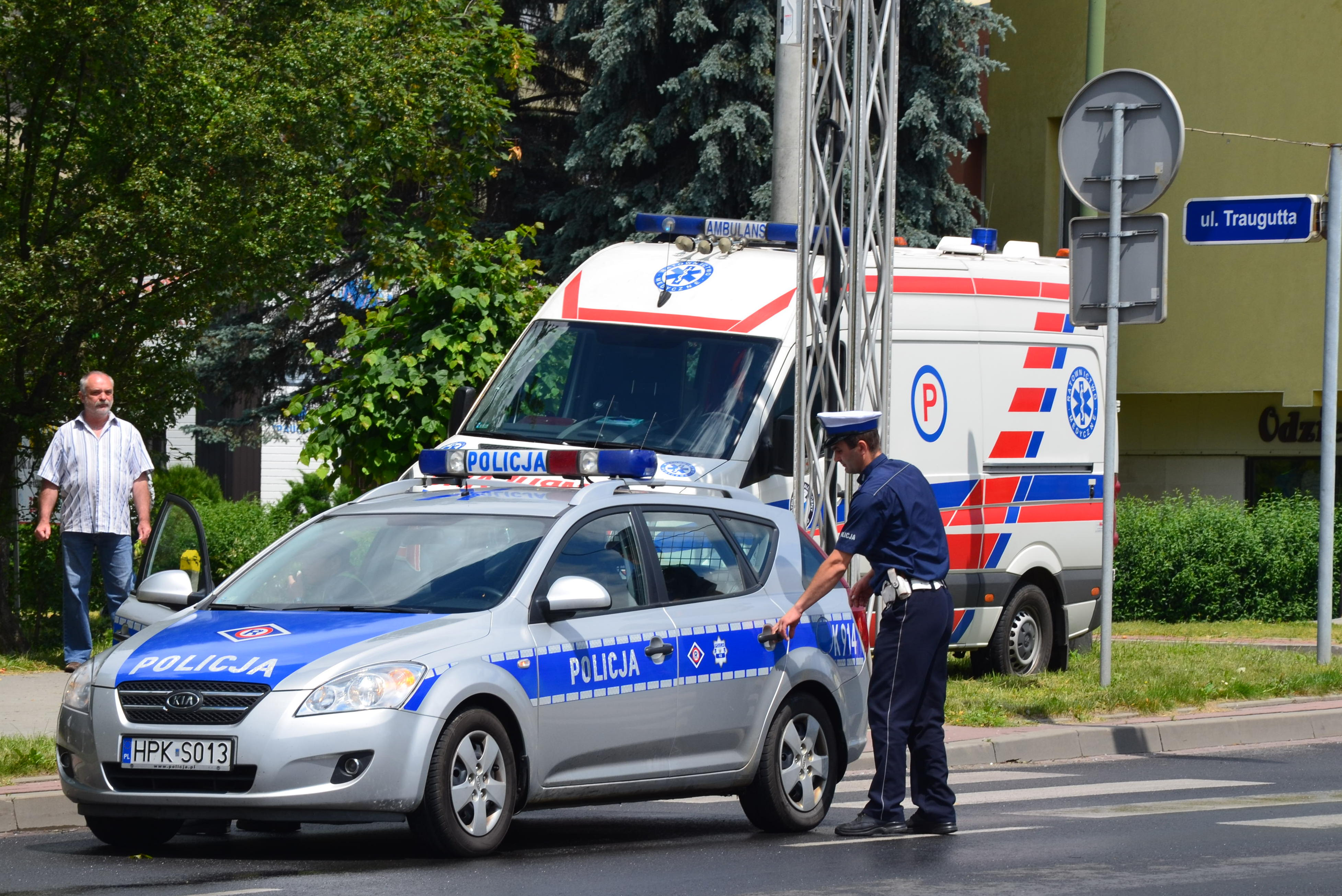 Traugutta-Straße in Sanok